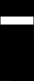 Color of "American Line" ship's funnels